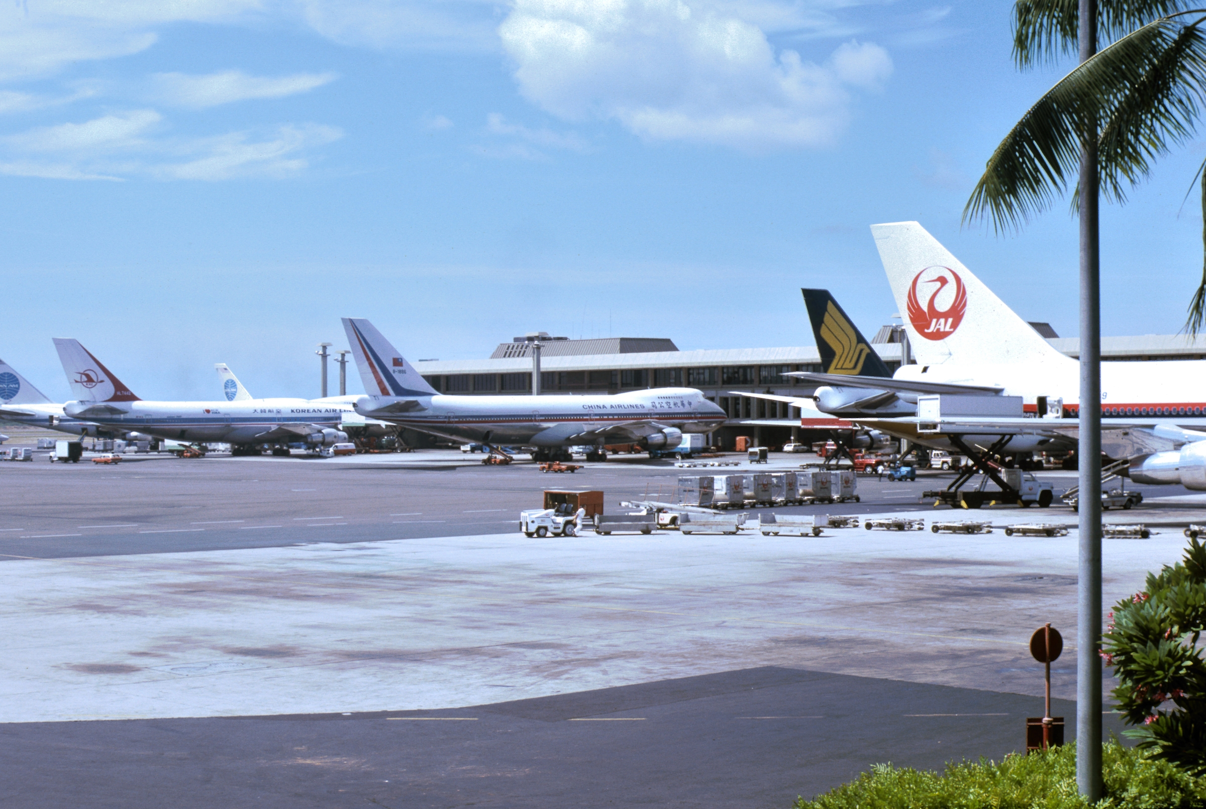 United States of America United States of America, China Airlines B-1886 and Korean Air Lines HL7442 parked among others at Honolulu International Airport. B-1886 crashed 2008-07-07 as N714CK in Bogota and HL7442 was shot down by a Soviet missile 1983-09-01 near Sakhalin Island. I recently found this picture when I scanned my old slides. The day can be +/- 2, year and month are correct.